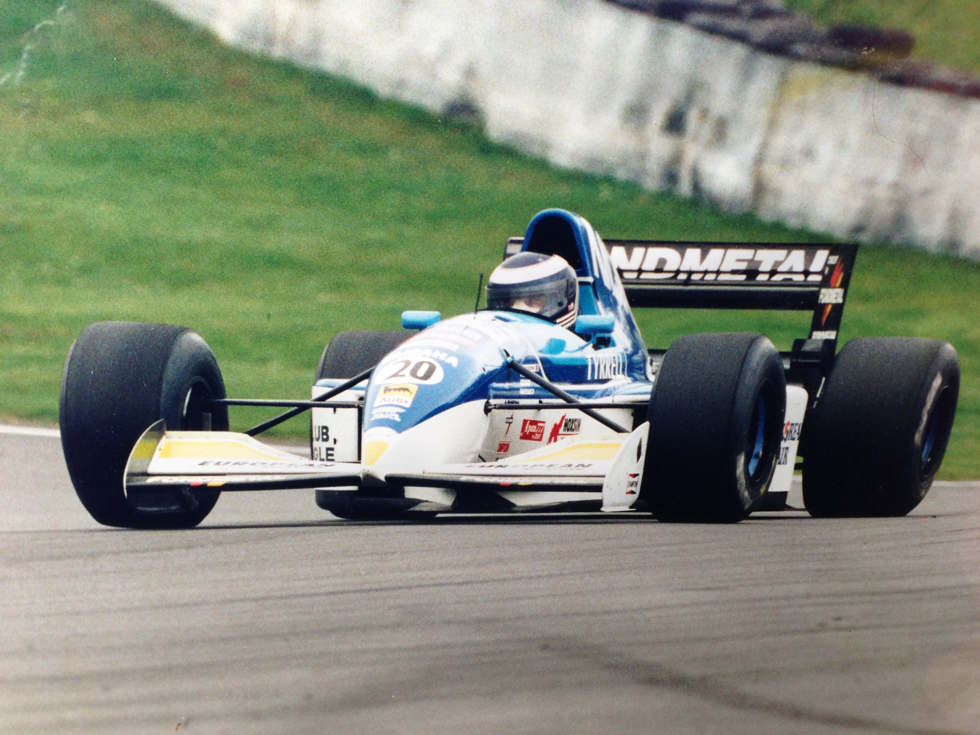 Mike gascoyne driving a Tyrell f1 car in Boss GP series